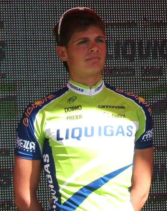 Named cyclist at the en:2009 Tour Down Under team presentation